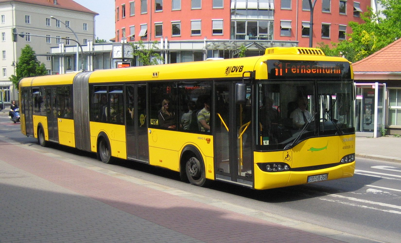 Low-floor bus Solaris Urbino 18 (#458 008-2) of the Dresden Transport Authorities. Built 2004, DVB Dresden operator. Line 61 to the Dresden Television Tower at the stop Bernhardstraße